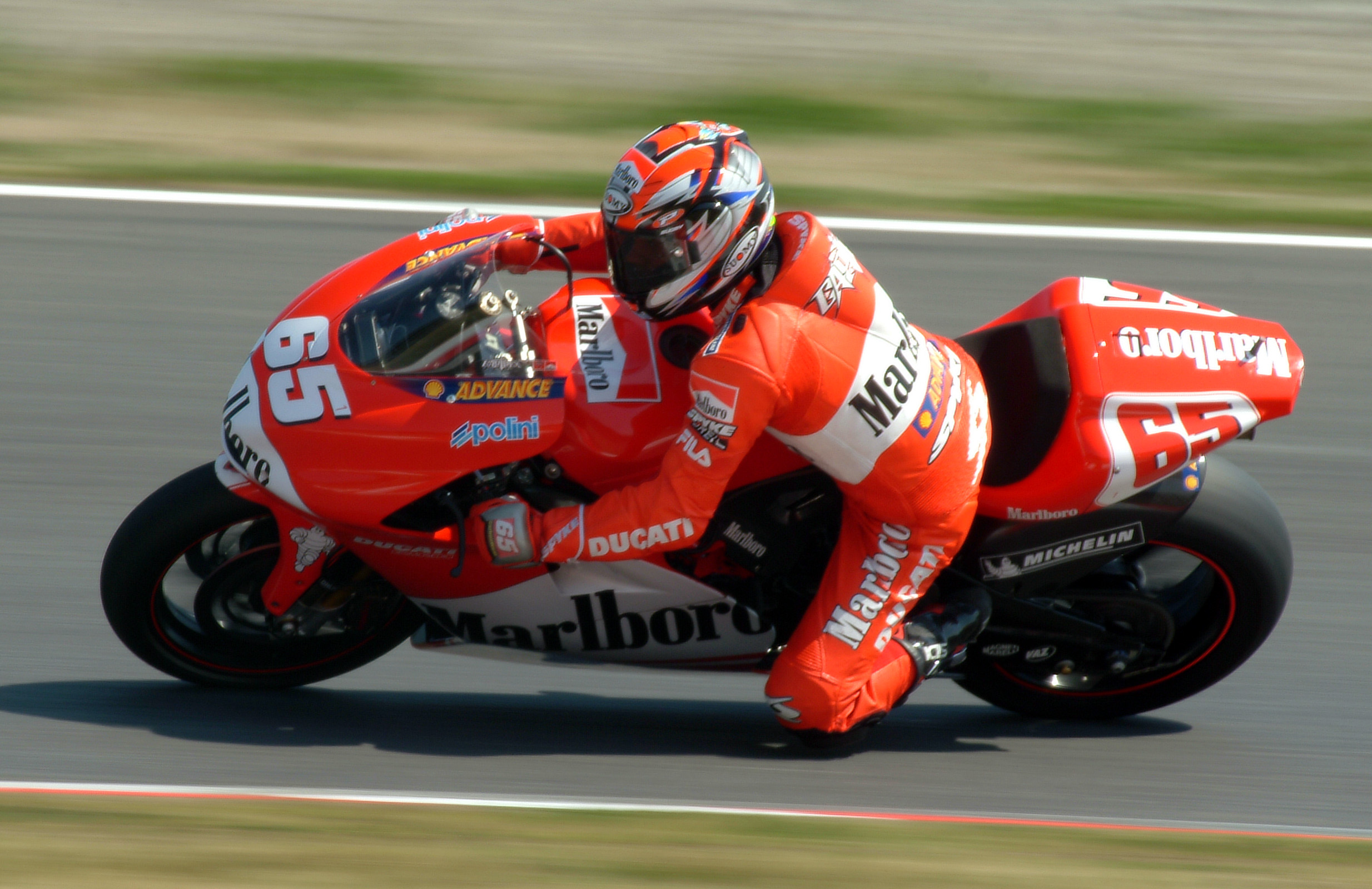 Loris Capirossi, in Japanese Grand Prix 2003